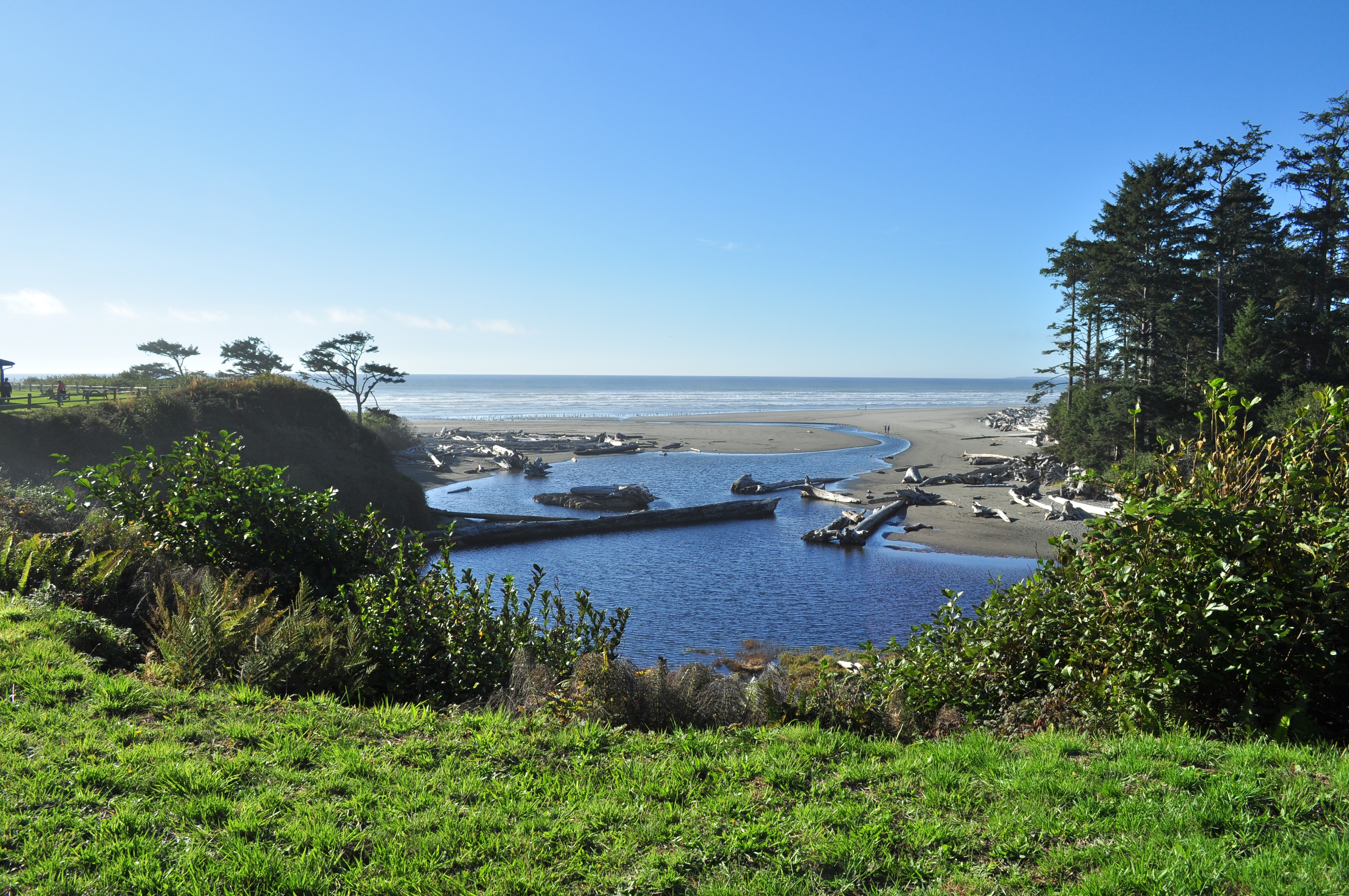 Outlet of Kalaloch Creek, seen from the grounds of Kalaloch Lodge, Forks, Washington, U.S. In the Olympic National Forest.